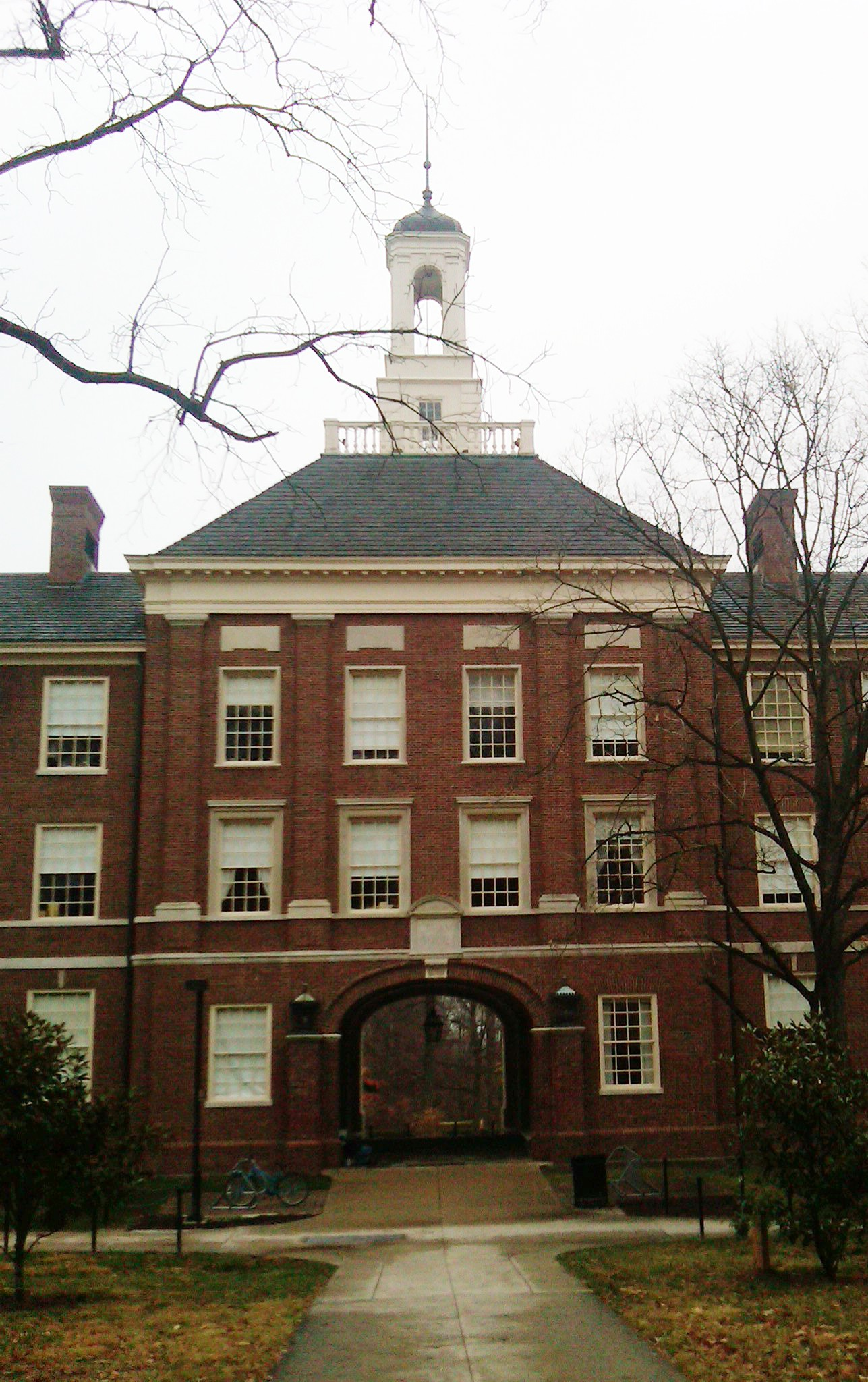 A picture of Upham Hall